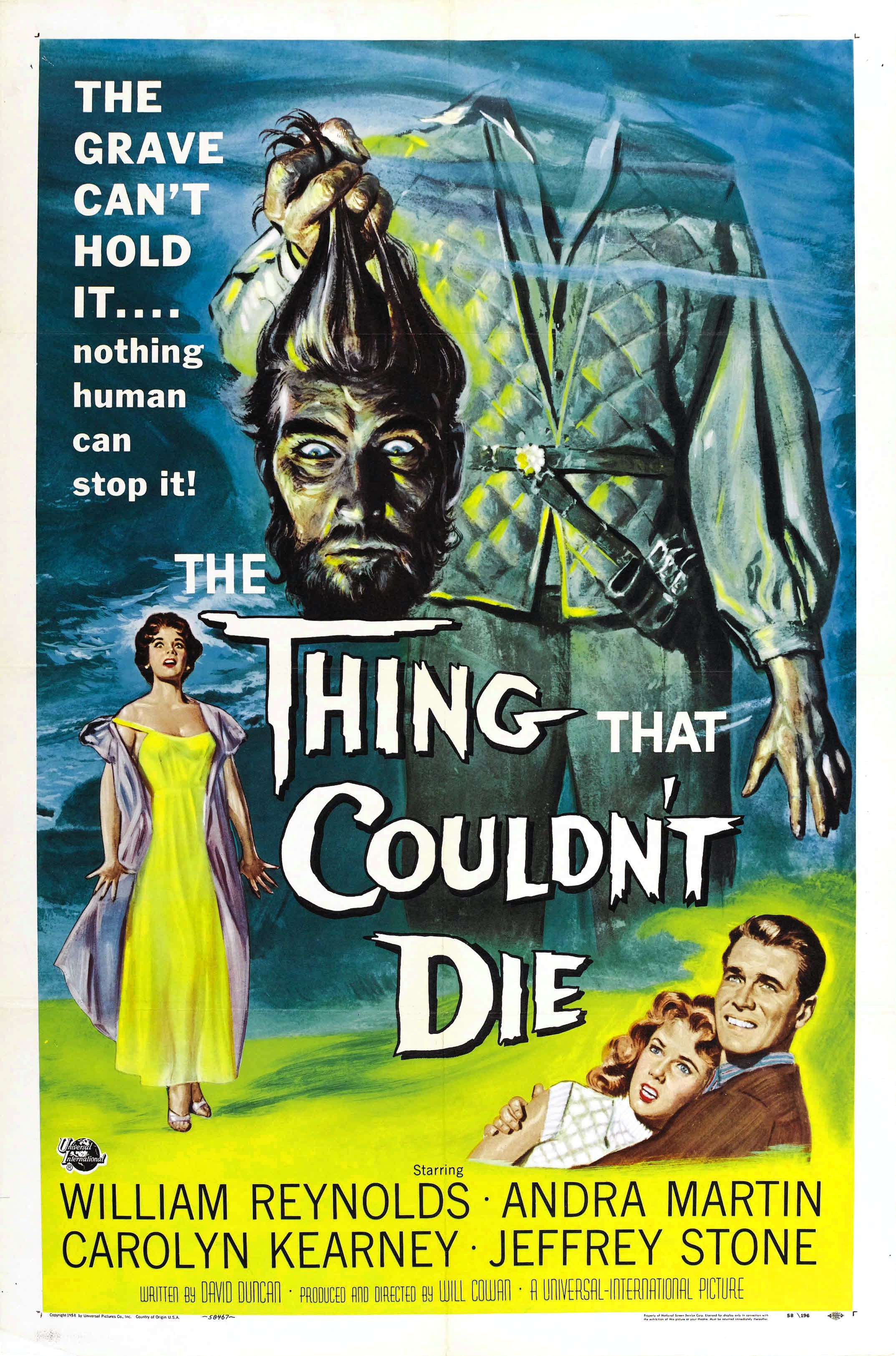 Theatrical poster for the film The Thing That Couldn't Die